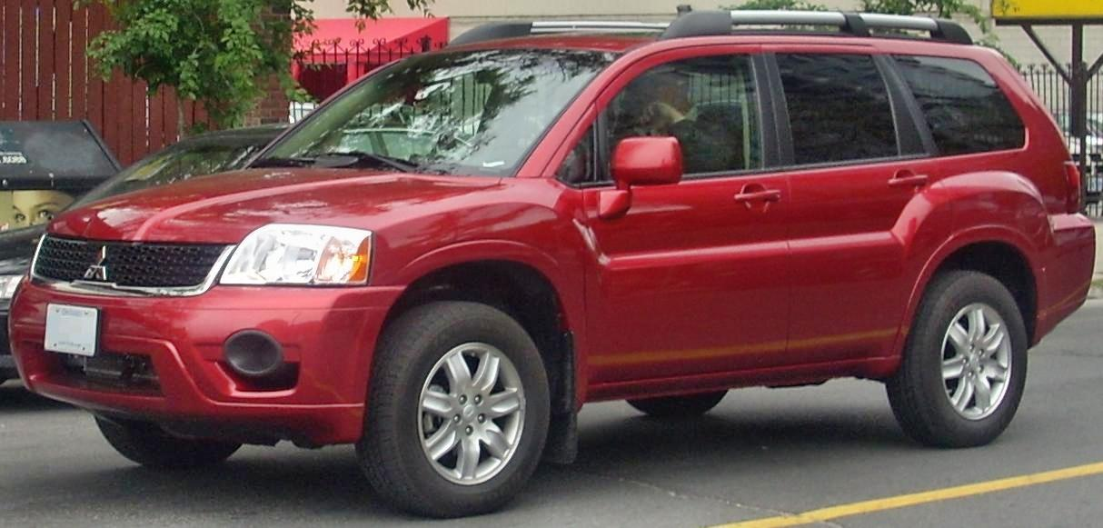 2010 Mitsubishi Endeavor photographed in Ottawa, Ontario, Canada at the Byward Market Auto Classic 2009.